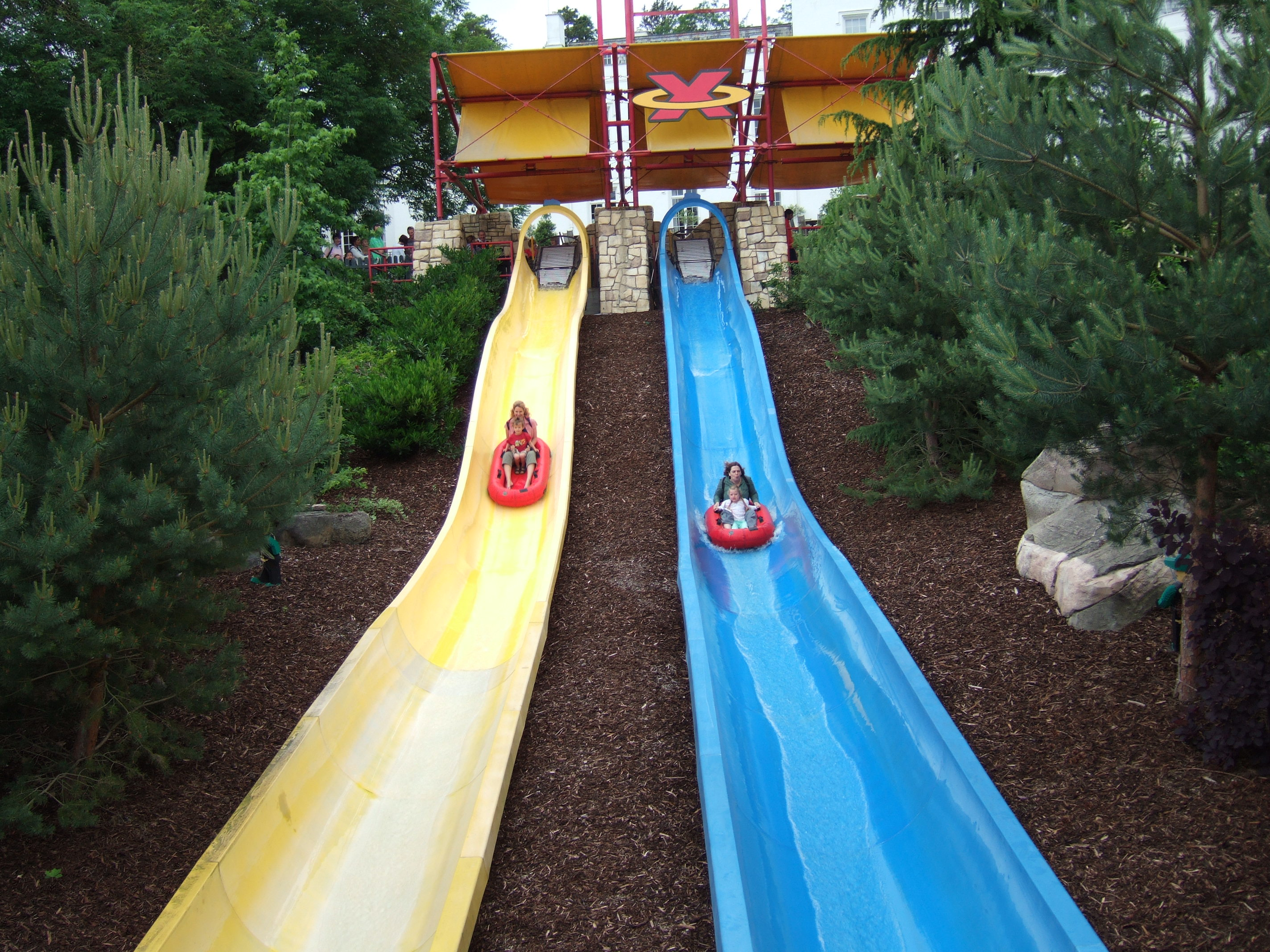 Extreme Team Challenge, Legoland Windsor, Berkshire, UK